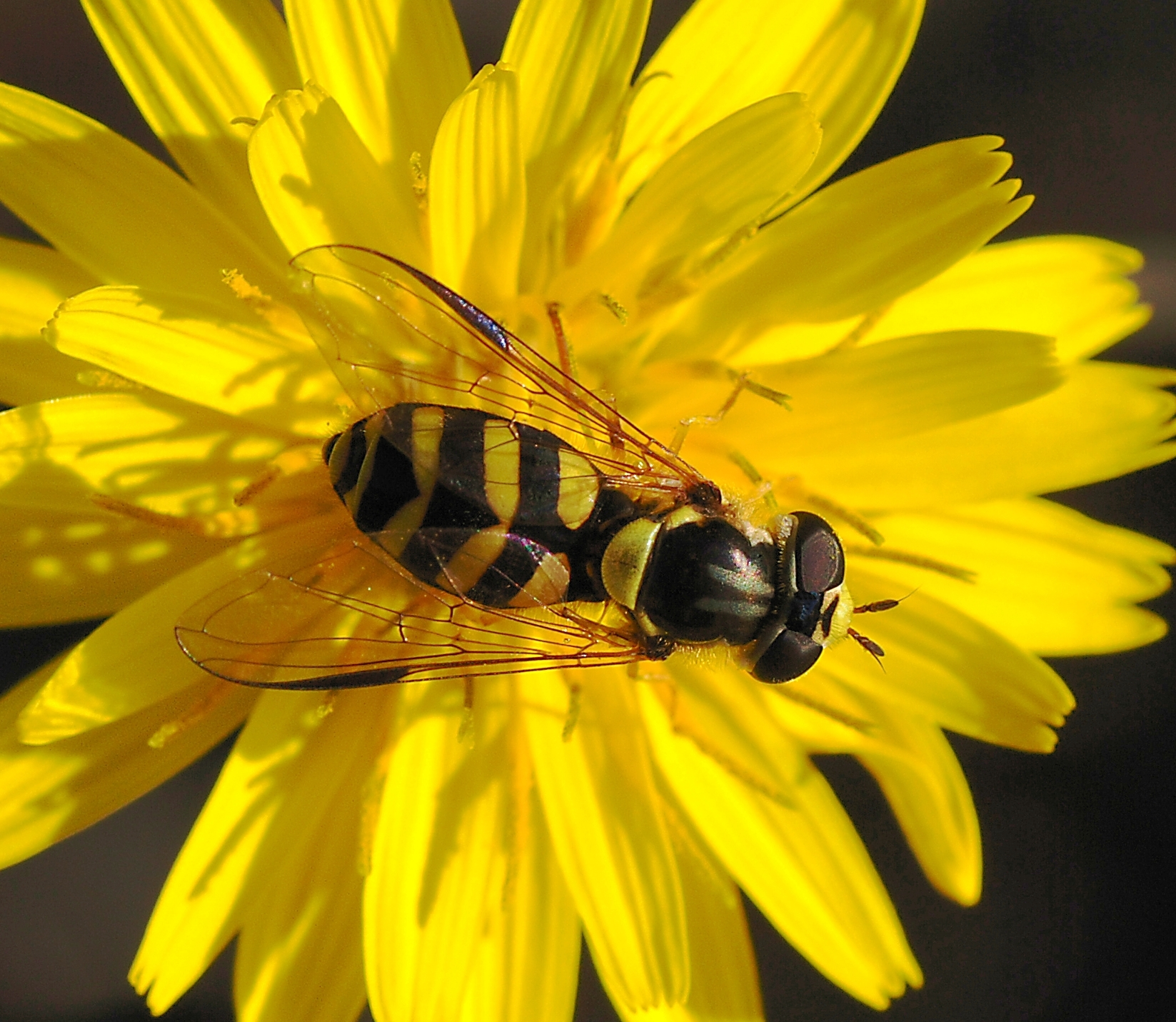 Hover fly (female Dasysyrphus albostriatus)